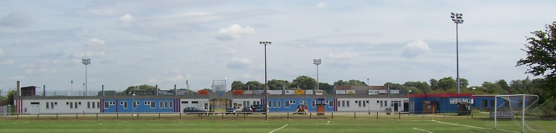 Ilburg stadium in Eilenburg